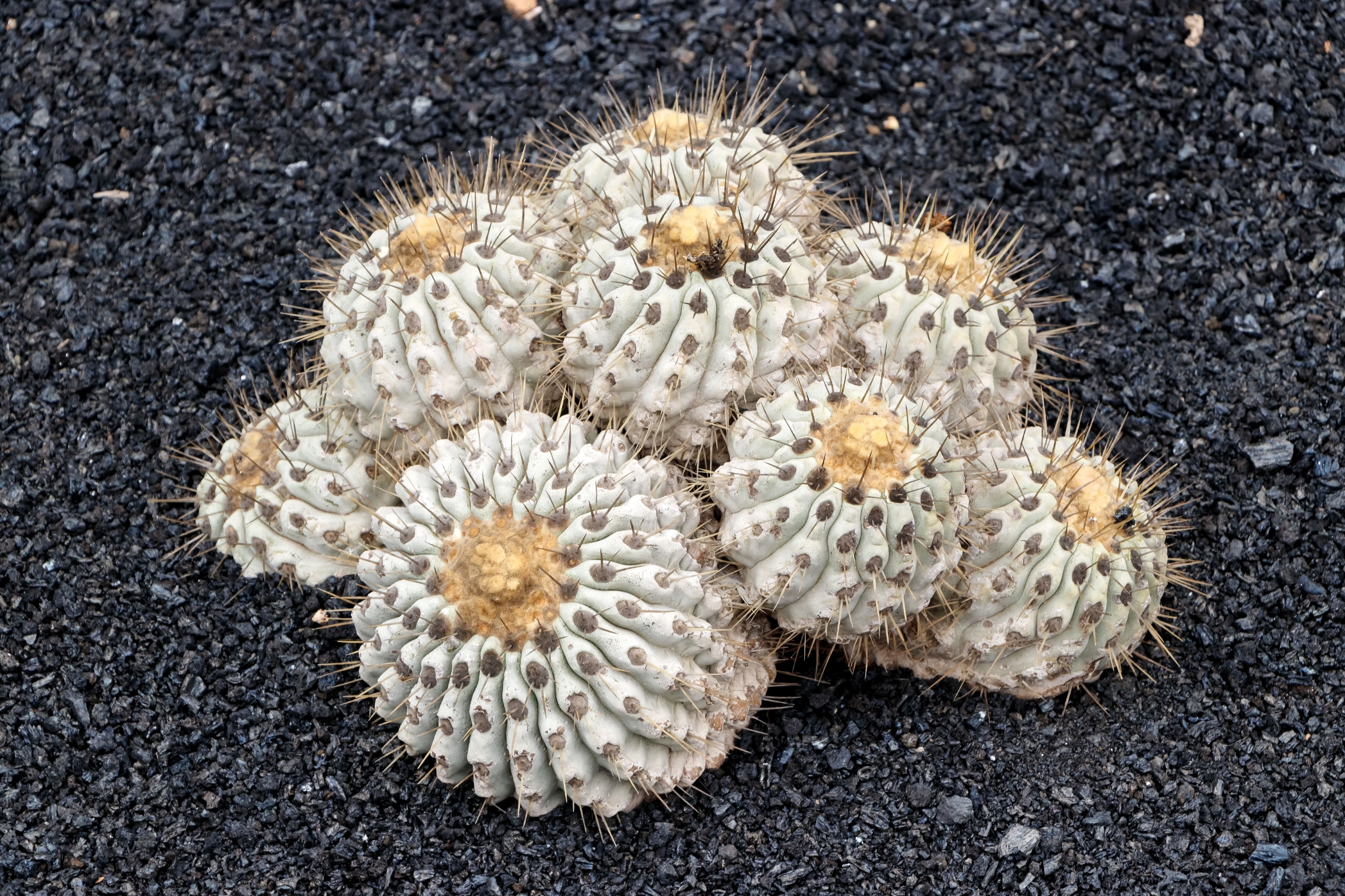 Copiapoa cinerea purpurea; Habitus; Jardin de Cactus, Guatiza, Lanzarote, Canary Islands, Spain.